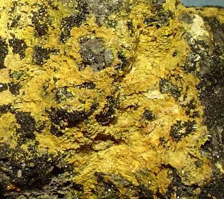 Massicot Locality: Monte Cristo mine, Goodsprings District, Clark County, Nevada, USA (Locality at ) Size: 5.0 x 4.0 x 4.0 cm. This showy specular galena matrix specimen is VERY RICHLY covered with a mustard-yellow crust of massicot and is from the well-known Goodsprings District of Nevada. Ex. John Ydren Collection.